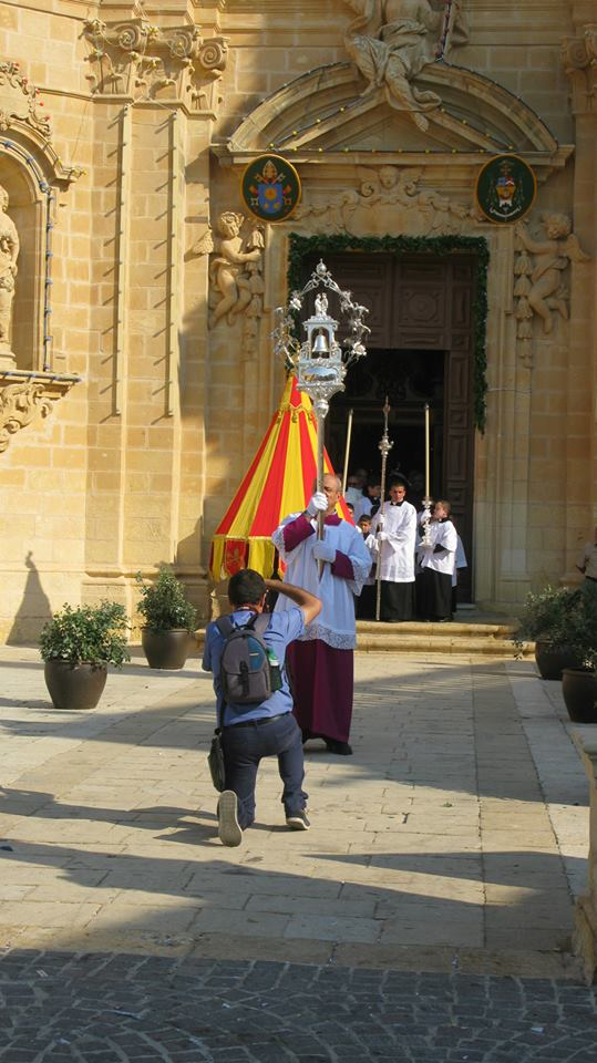 The image shows the Umbraculum and the Tintinnabulum of the Basilica which were granted in 1967 when the church was elevated to the dignity of a Minor Basilica by Pope Paul VI. Also the image shows the coat of arms of both the Diocese and the incumbent Pope. A Minor Basilica has the privilege of including the Pope's coat of arms over the church's main door.